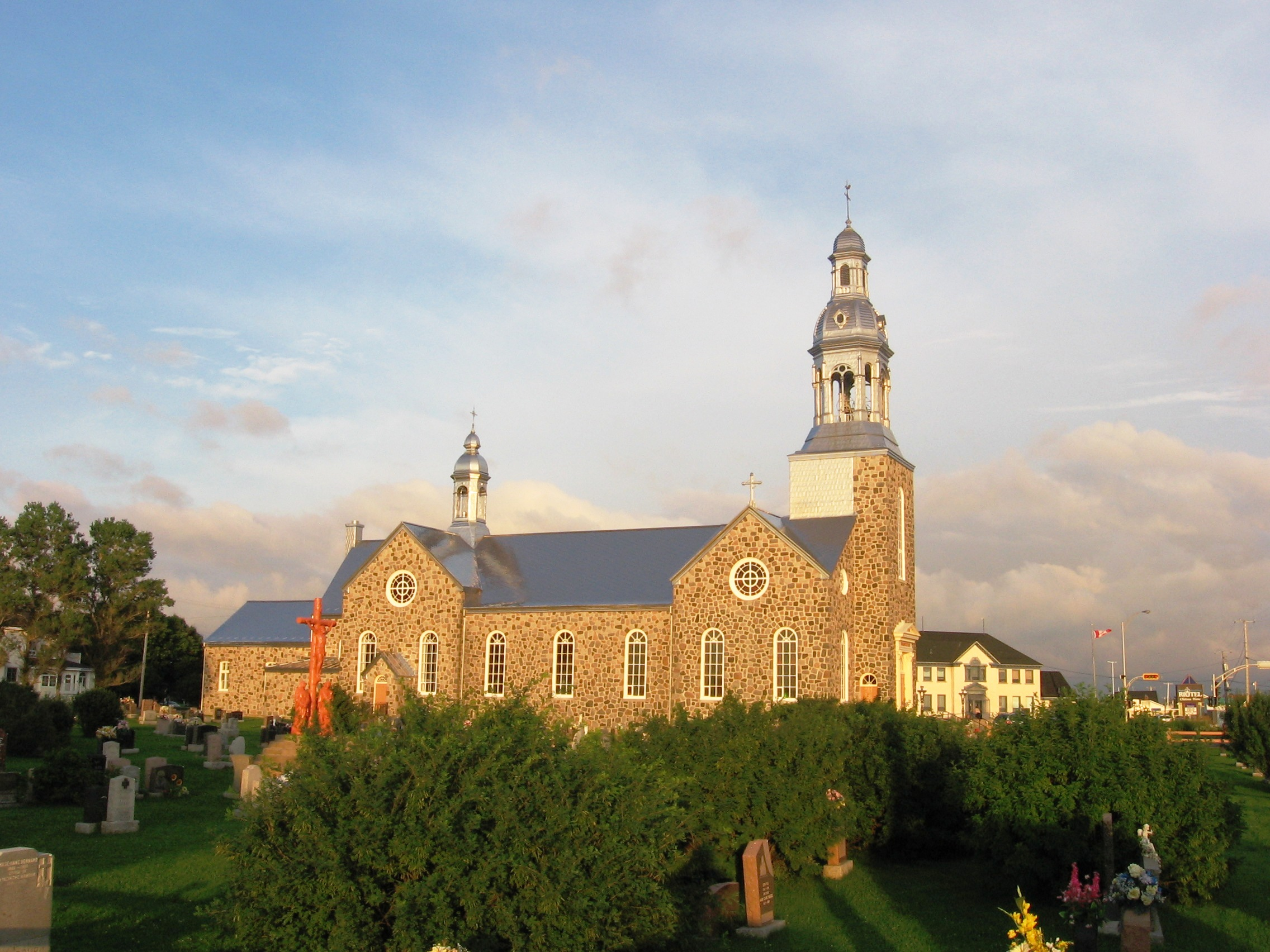 Church of Bonaventure